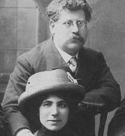 Group of Jewish anarchists in London: (back row from left to right) Ernst Simmerling, Rudolf Rocker, Wuppler, Lazar Sabelinsky, Loefler, (front row) Milly Witkop, Milly Sabel